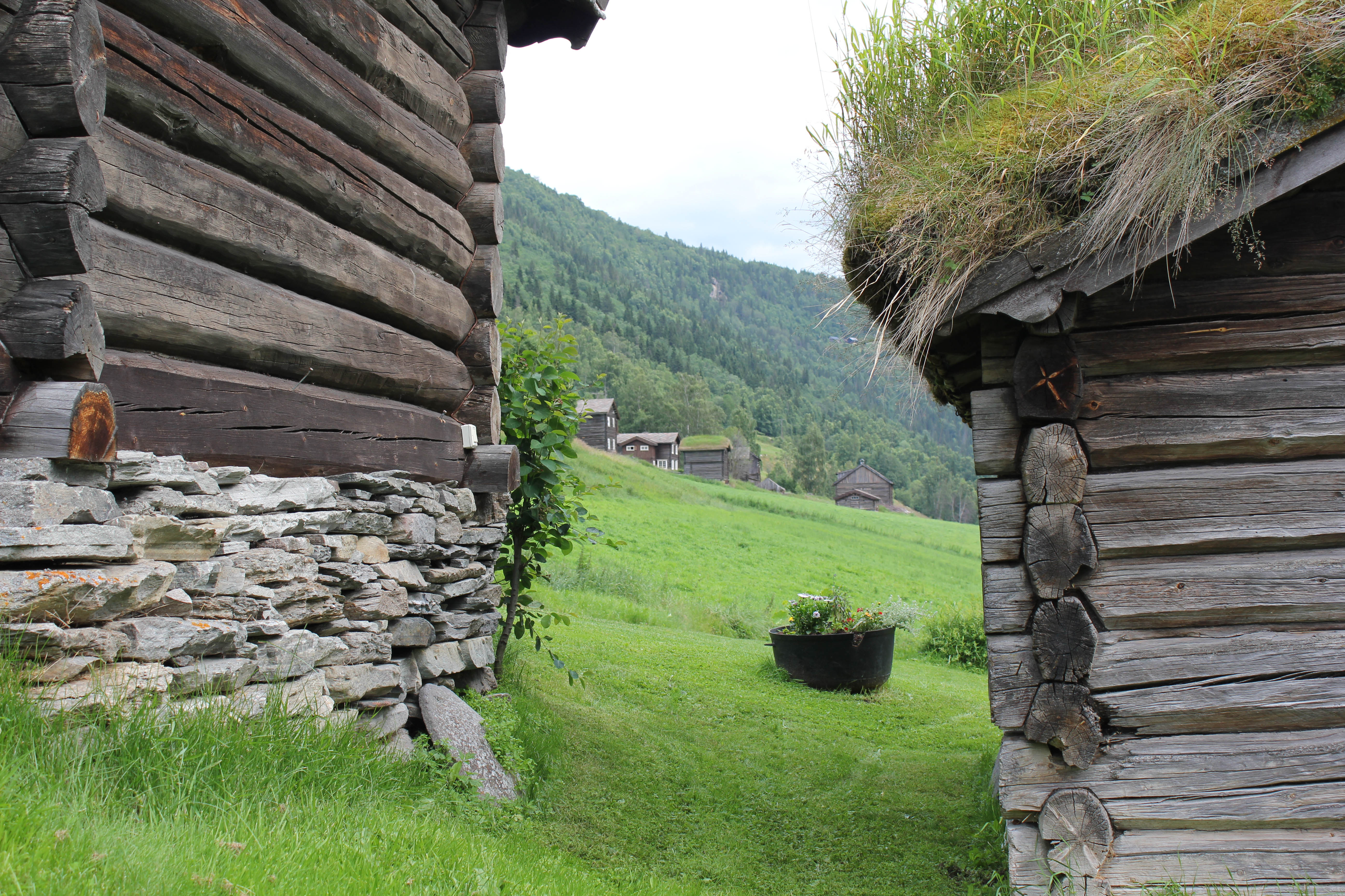 The photo is taken from the farm Nordre (North) Ekre, showing the farm Søndre (South) Ekre. The two farms used to be one until the 17th century Norsk (bokmål): Bildet er tatt fra Nordre Ekre og viser Søndre Ekre. De to gårdene var opprinnelig én. De ble delt på 1600-tallet